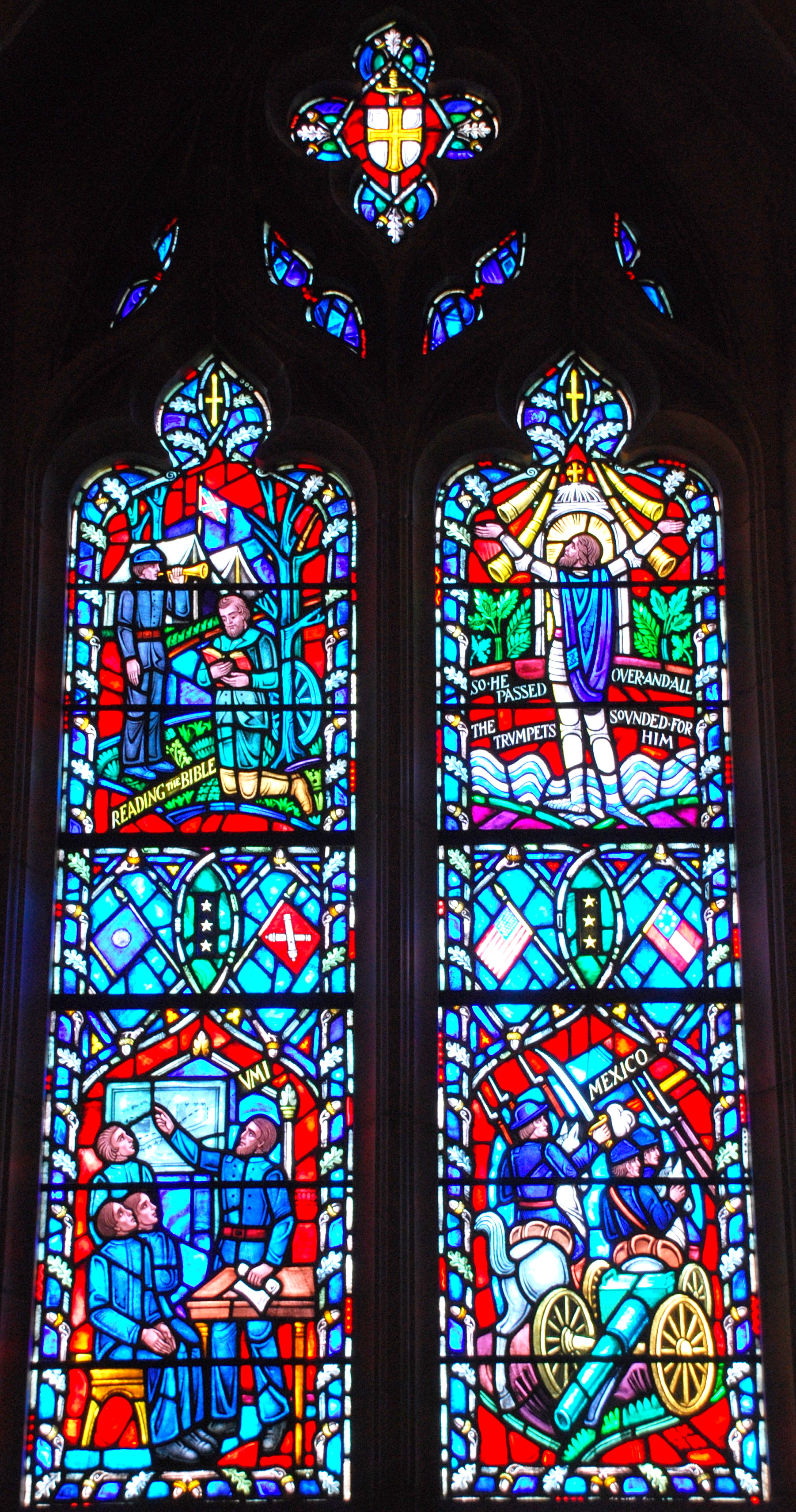 Stain glass window of Stonewall Jackson in the Washington National Cathedral